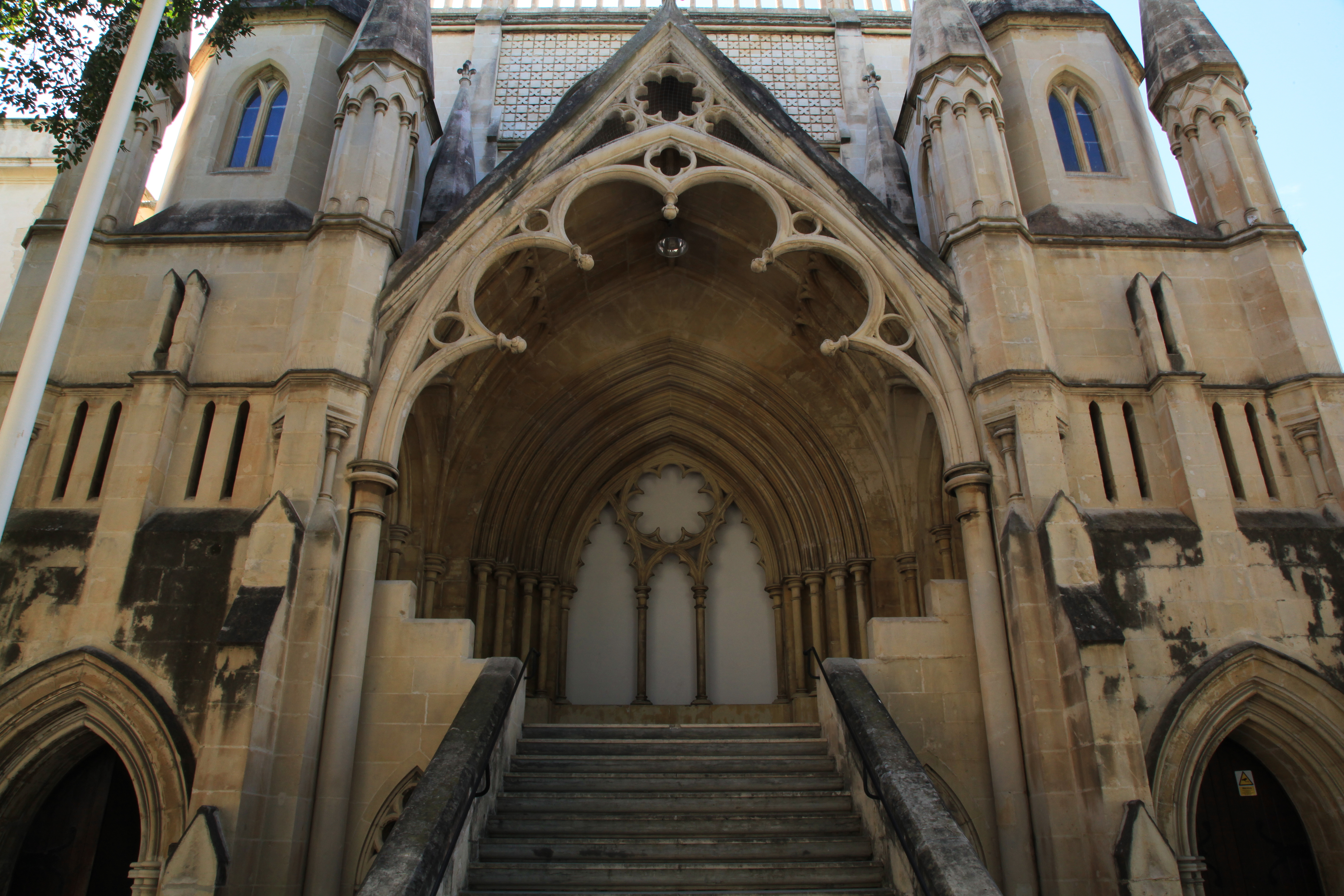 Robert Samut Hall, Triq Sarria in Floriana, Malta